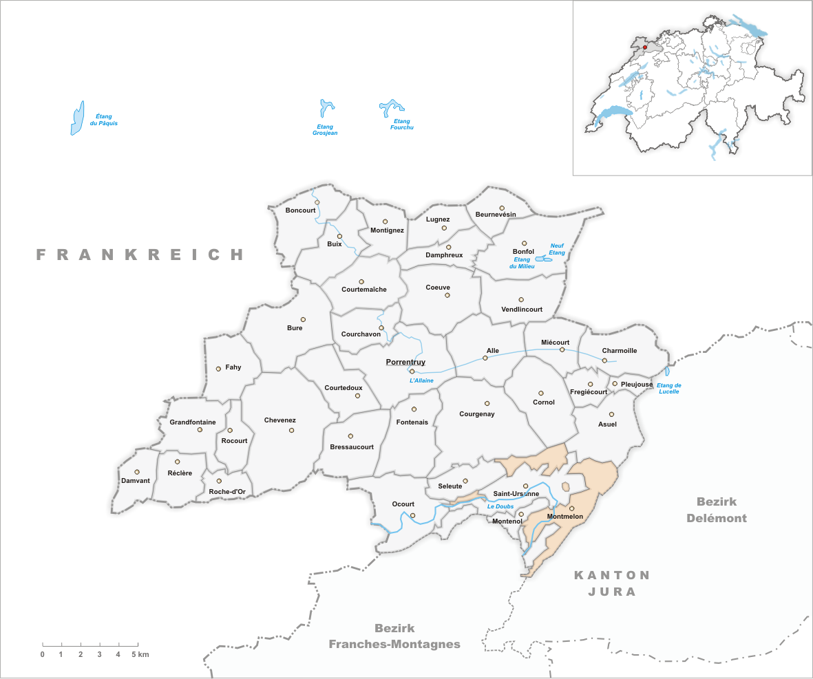 Municipality Montmelon